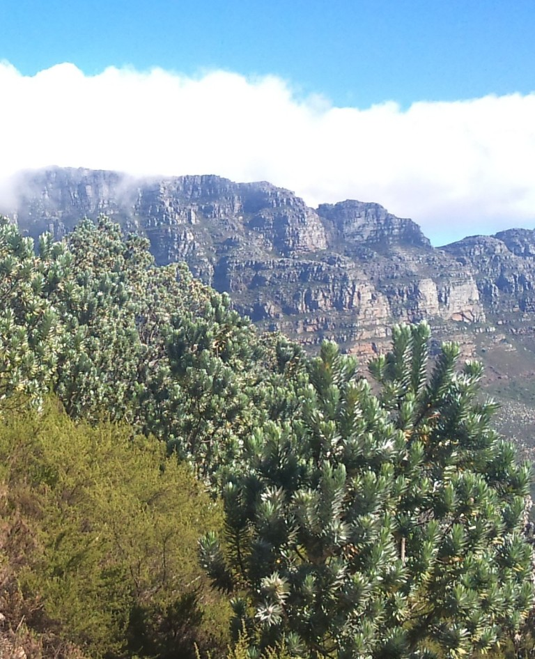 Silvertrees on Lions Head. Cape Town. Leucadendron argenteum.